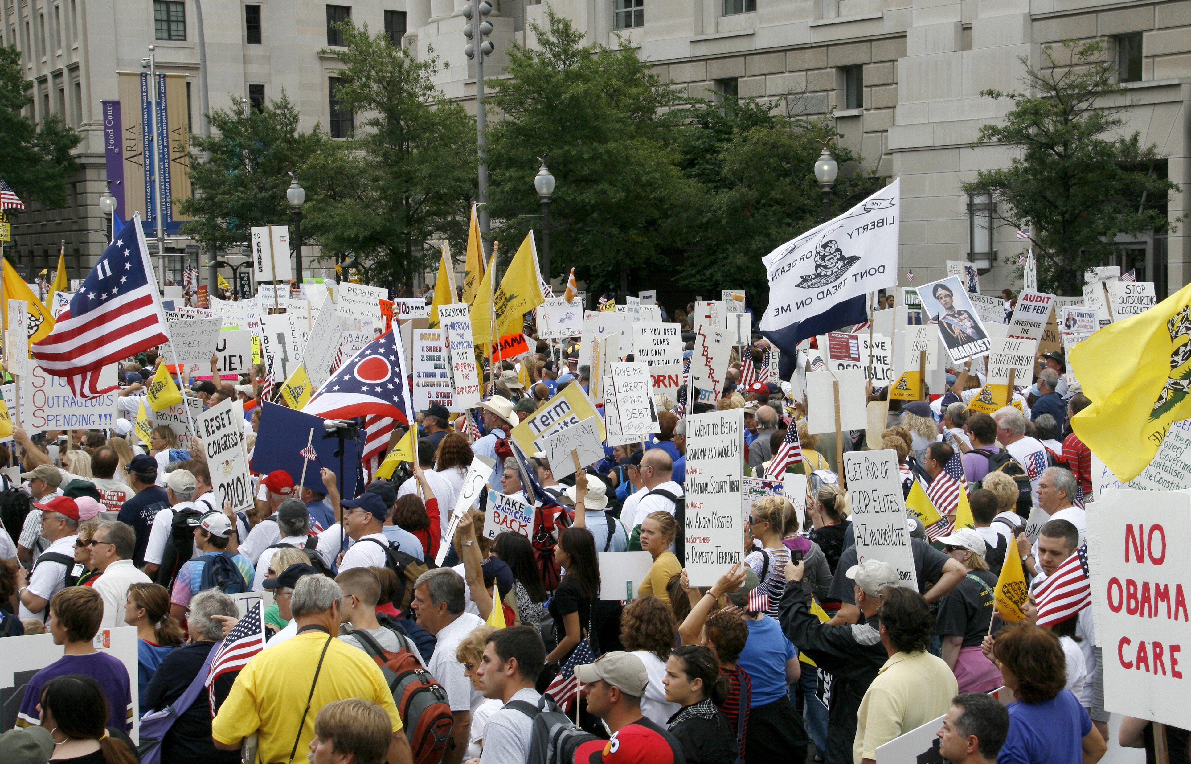 Protesters carrying signs during the Taxpayer March on Washington.